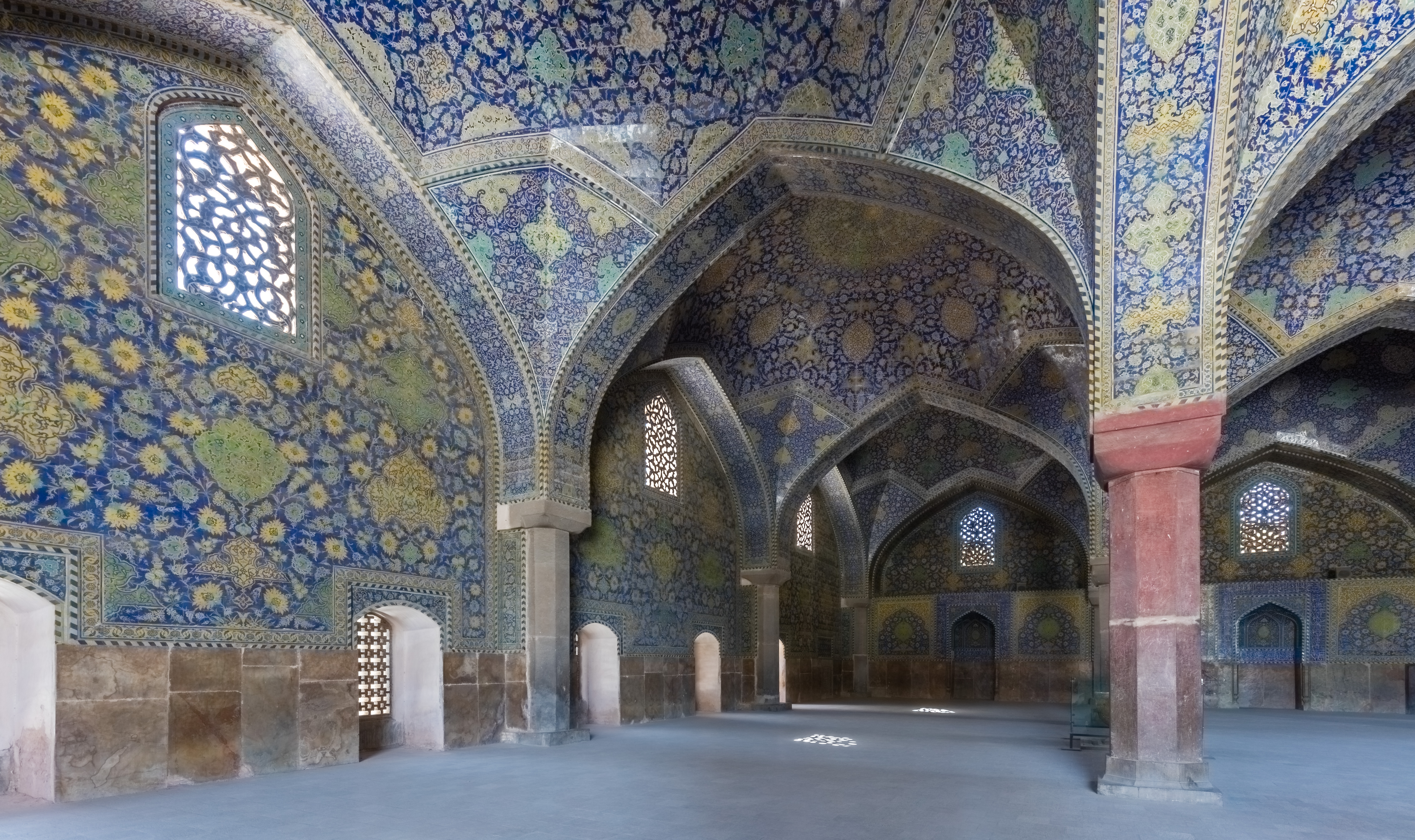 Shah mosque, Isfahan, Iran